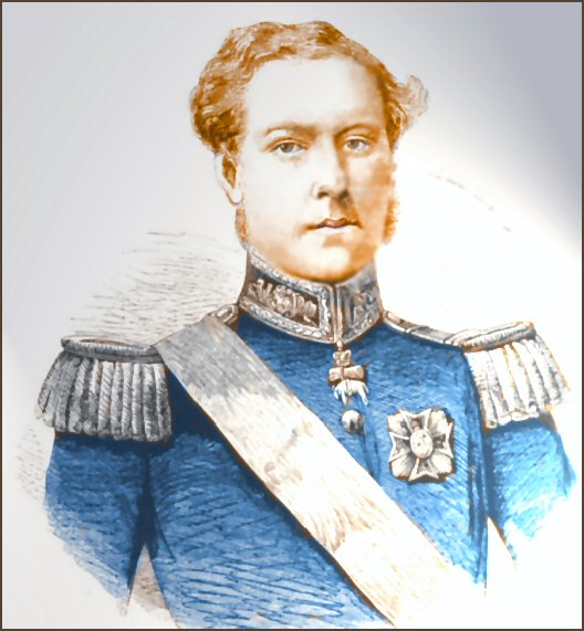 Luis I de Portugal c. 1870